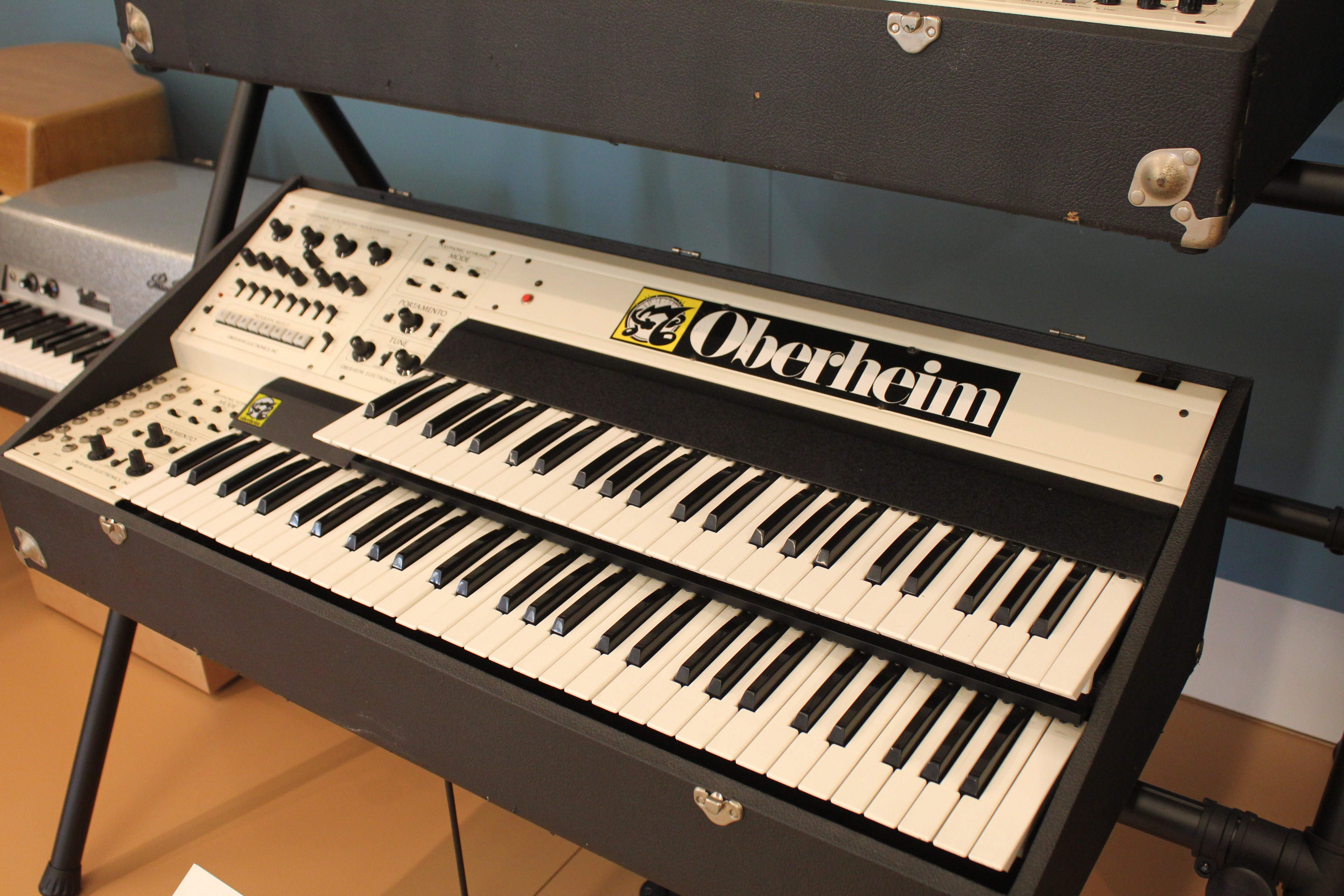 Oberheim factory custom dual manual 8 Voice Synthesizer exhibited at Musical Instrument Museum (Phoenix) (MIM), 1 of only 6 made (also Patrick Moraz owned other)